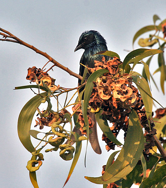 Earpod Wattle Acacia auriculiformis in Kolkata, West Bengal, India.